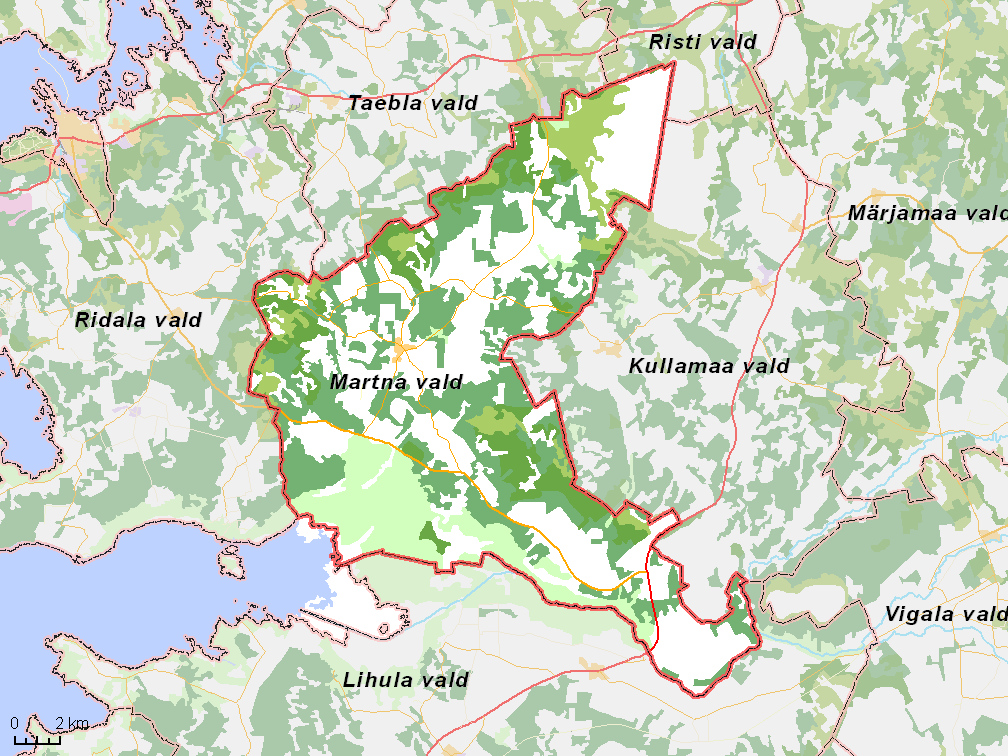 Map of municipality in Estonia